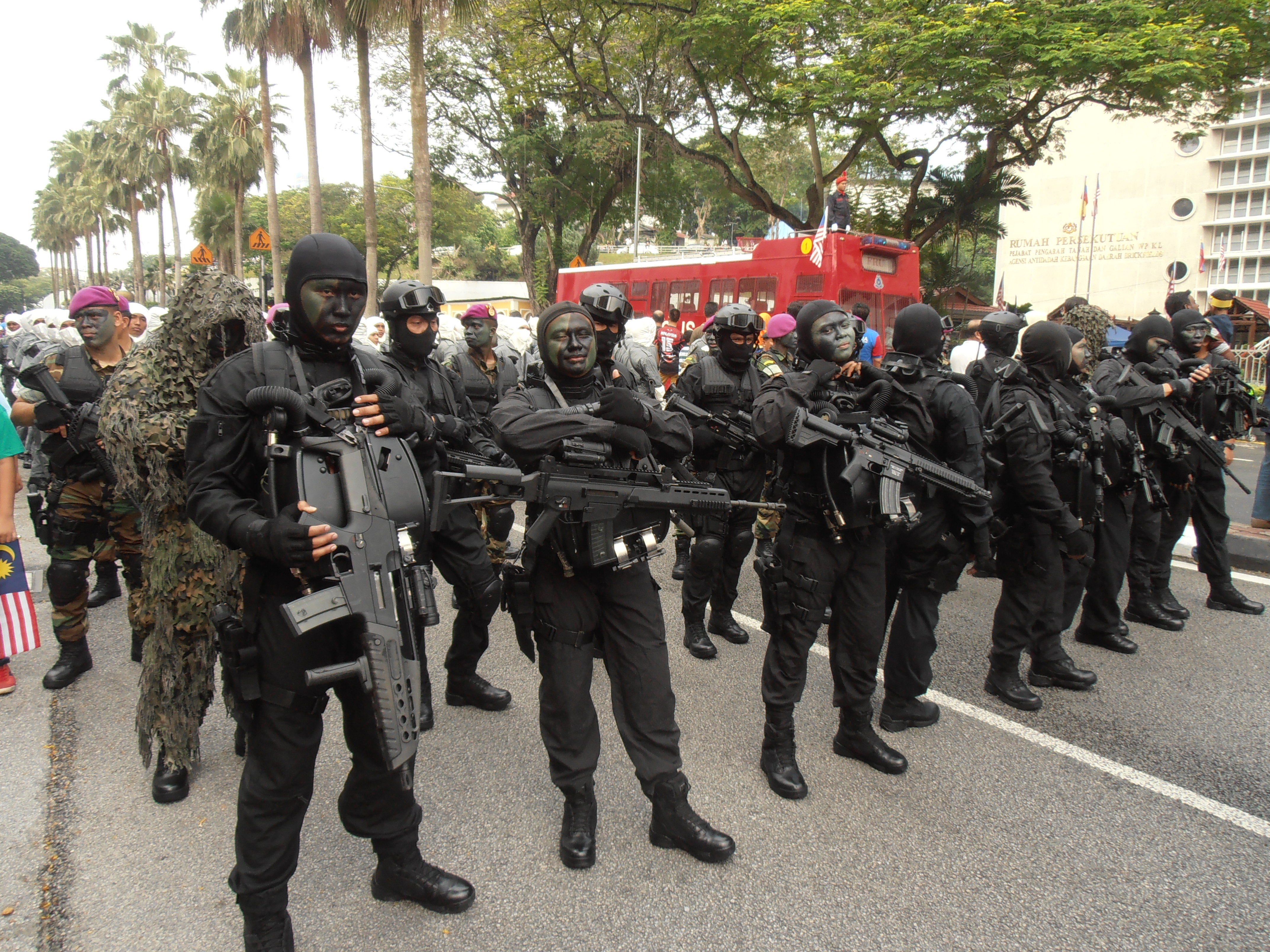 The Navy PASKAL operators prepare to parade during the 57th National Day Parade of Malaysia at Merdeka Square, Kuala Lumpur. From left, they're arms with HK XM8 Carbine 12.5 inches equipped with Aimpoint M68 CCO and vertical foregrip, G36E with top-mounted MIL-STD-1913 Picatinny rail carrying handle and Aimpoint M68 CCO, HK416 D10RS, G36C and XM8 Automatic Rifle / Designated Marksmen.